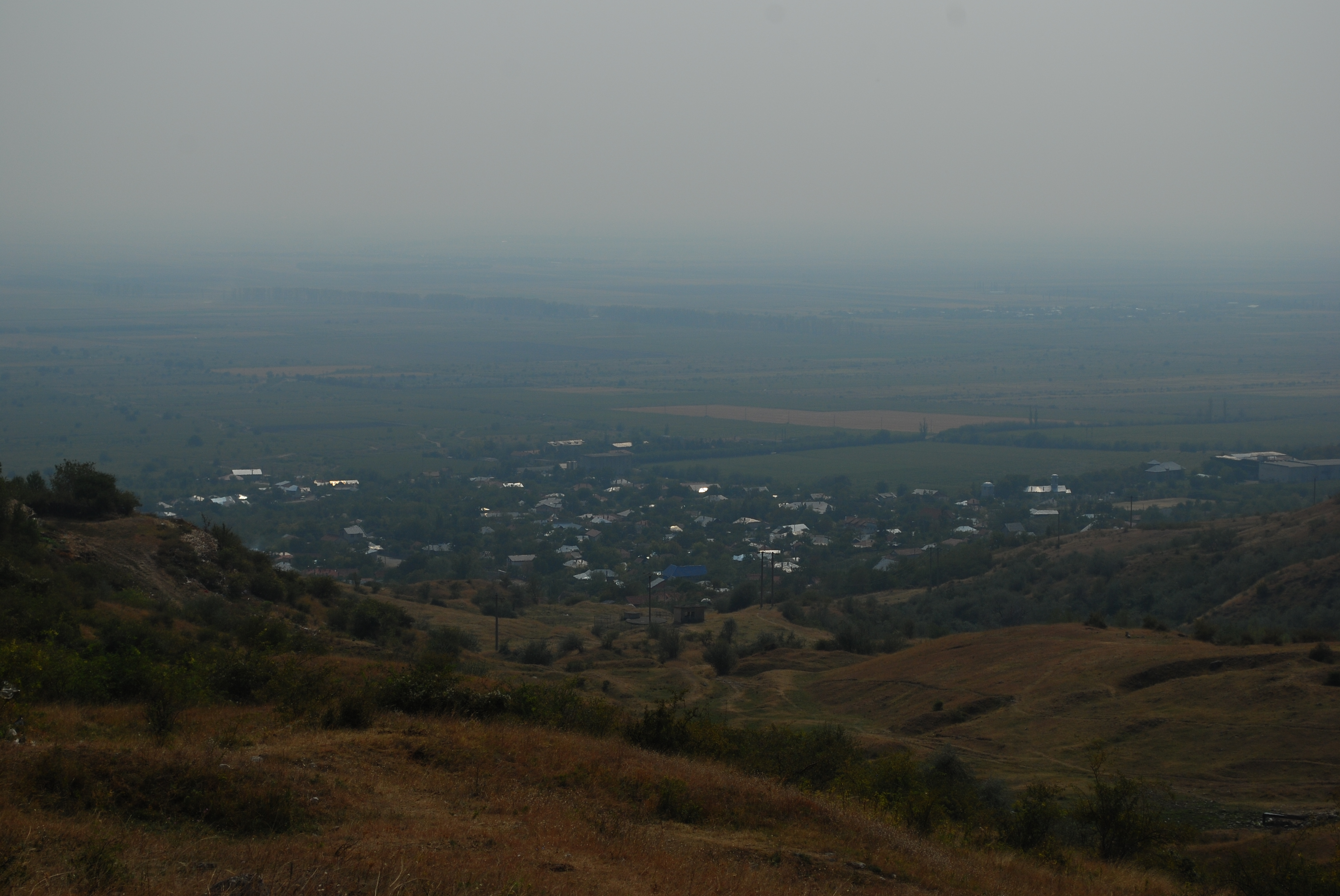 The village of Pietroasele, Buzău County, Romania, seen from the slopes of Istriţa hill